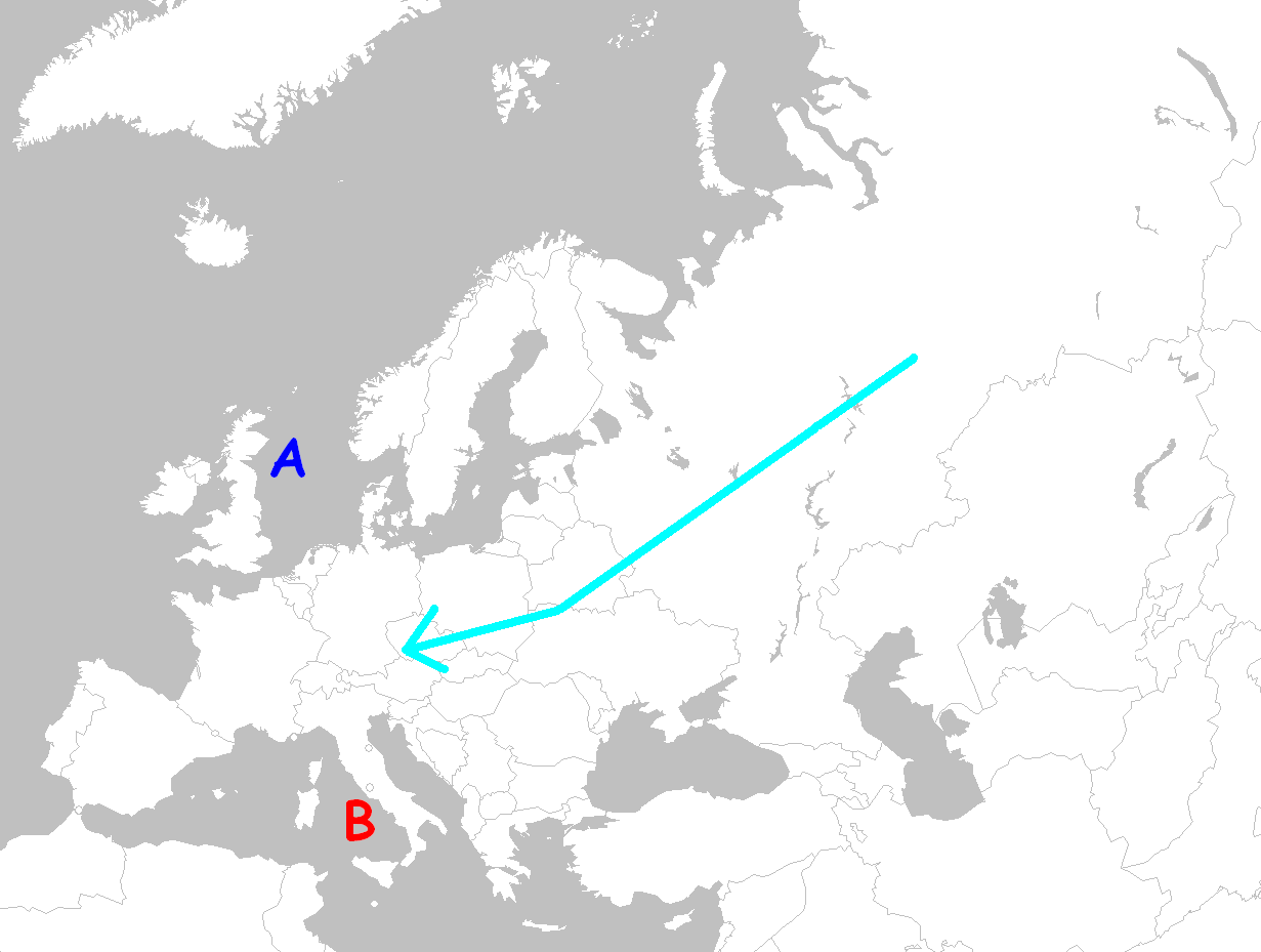 Siberian cold reaching western Europe